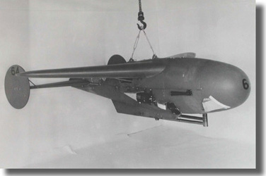 The "Pelican" was developed concurrently with the "Bat" by NBS, the Navy Bureau of Ordnance, and the MIT Radiation Laboratory. The "Pelican" is shown with instrumentation for field testing. Directly beneath the wing, shown in the photo, was mounted a 16mm Bell and Howell Type M-4A gun sight aiming point camera. Slightly forward and lower was mounted a 16mm Cine Kodak Model E camera. The housing on the nose covered a panel of signal lamps indicating the application of radar controls. The cameras simultaneously photographed the panel and the ground ahead of the glider. content: pelican guided missile AKA Special Weapons Ordnance Device (SWOD) MK7